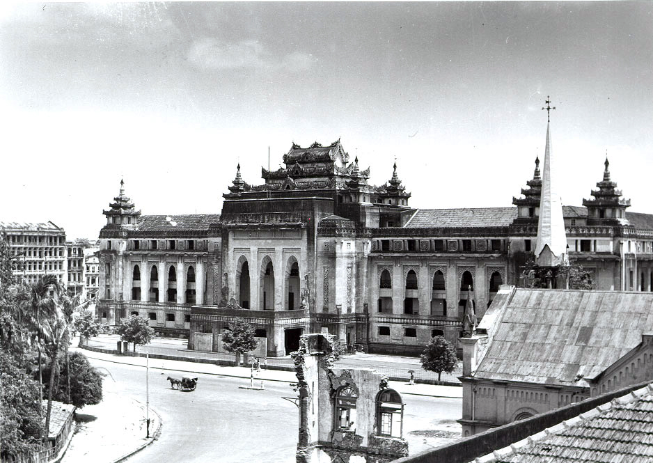 We understood this to be the Rangoon City Hall. Damage in foreground is part of the high court building. Park and Sule Pagoda are to the left.